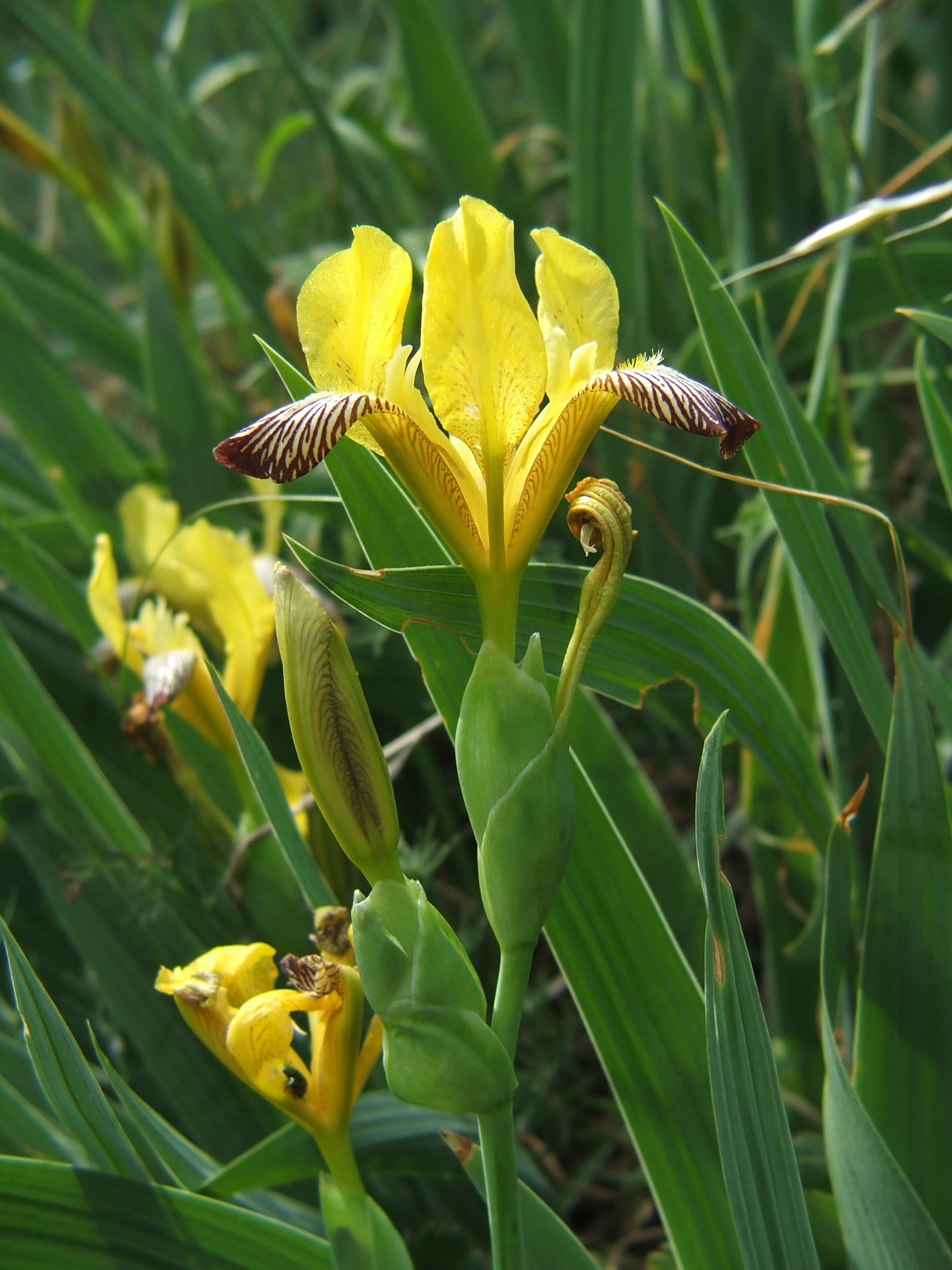 Iris_variegata L. at Naszály mountain, Vác (Hungary)